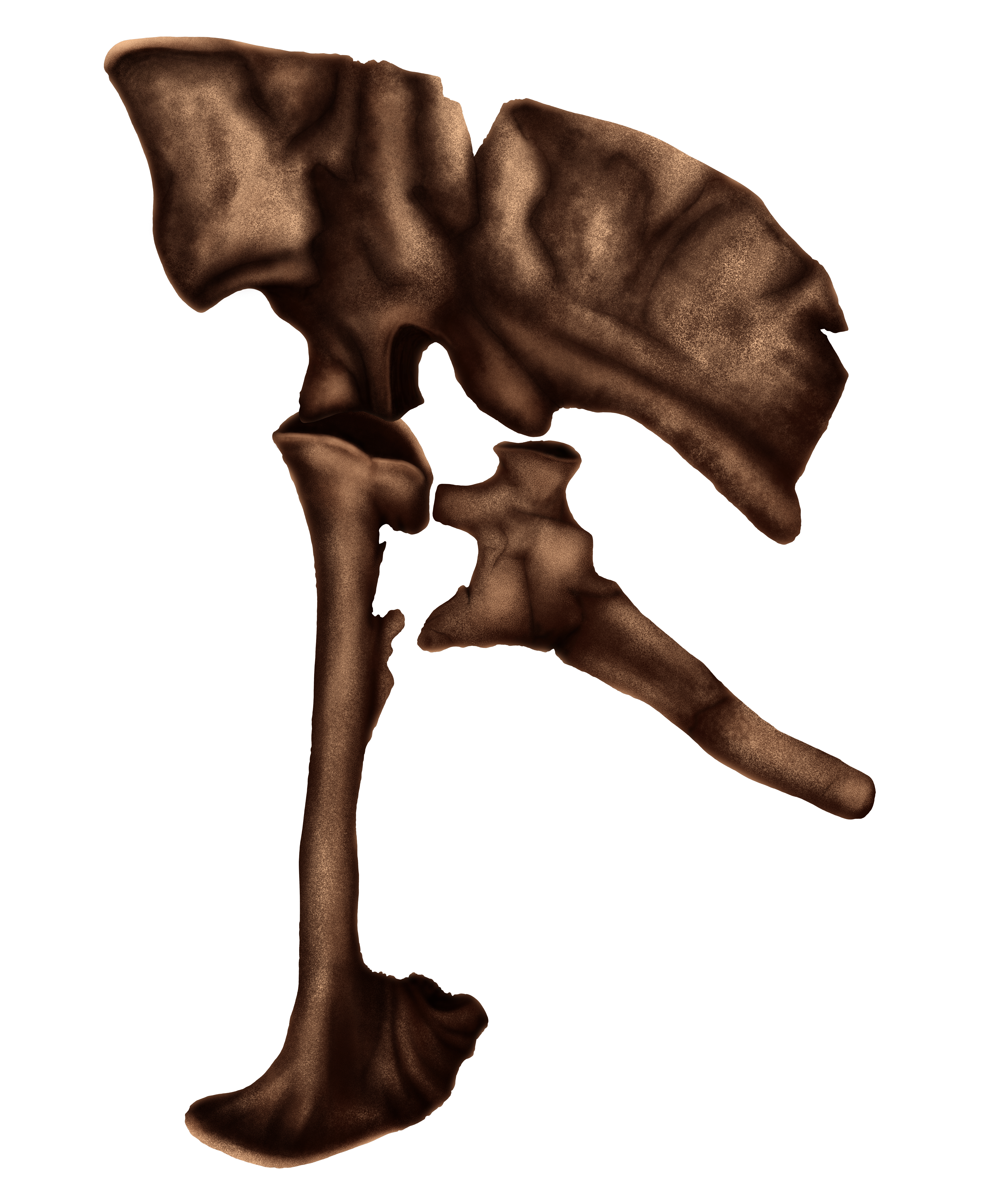 Illustration of the nicely preserved and primitive pelvis of the giant dromaeosaurid Achillobator giganticus. Note that the right illium was reversed in order to get a left lateral view. Holotype MNUFR-15.[1] ____________________________________________________________________________________________________________________